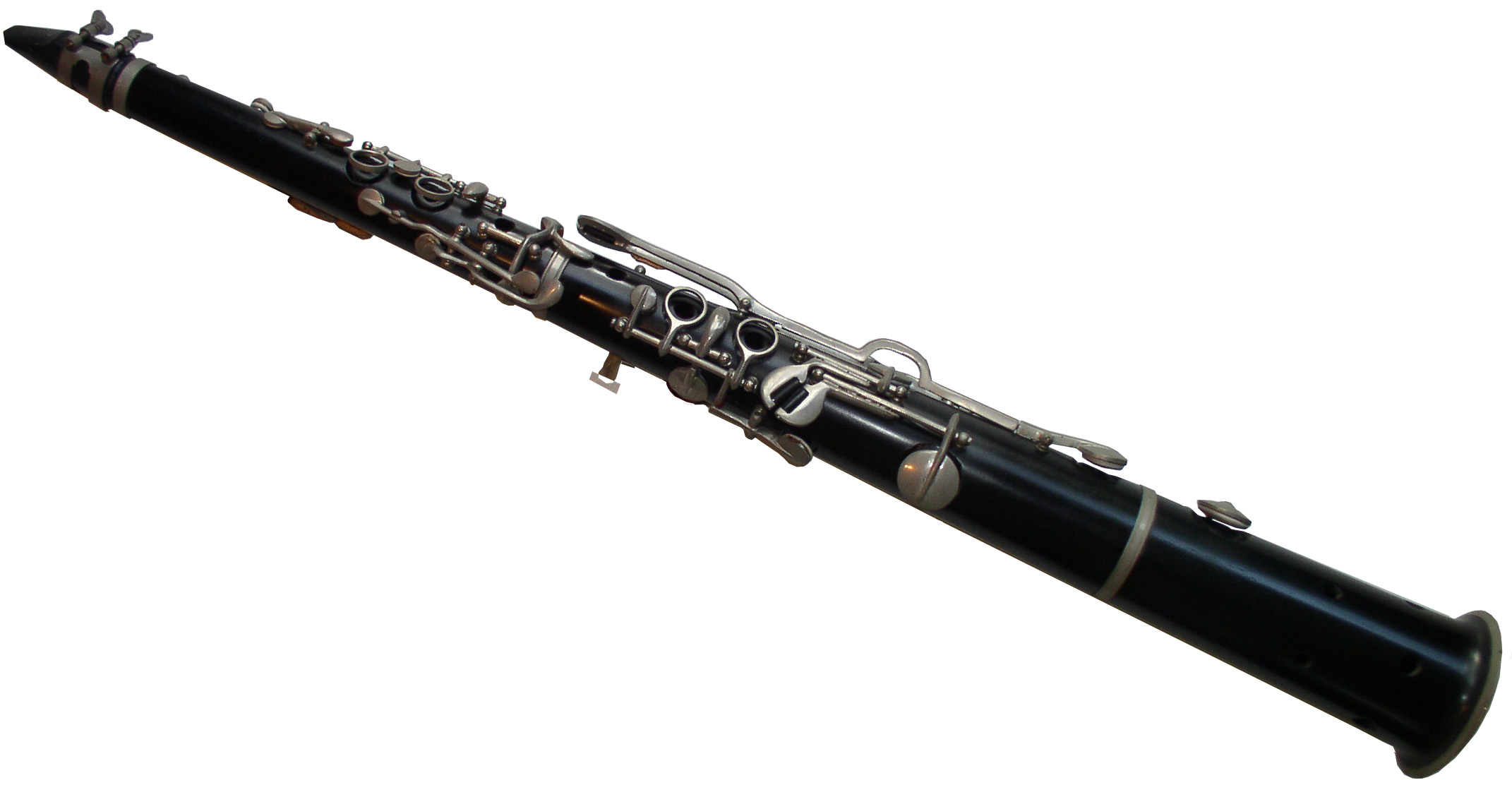 Hungarian tarogato - wooden saxophone - own picture